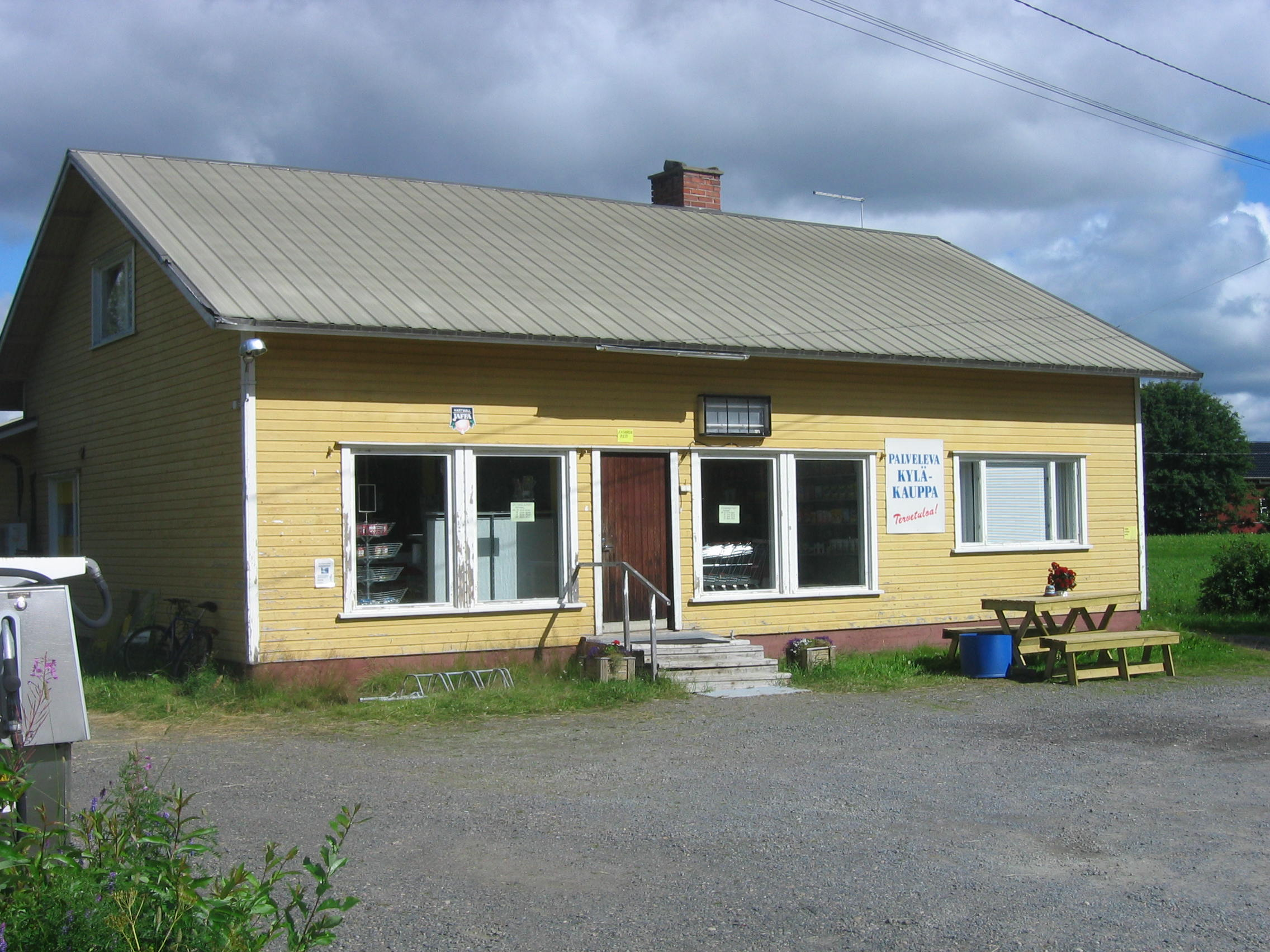 The village store in Juorkuna, Utajärvi, Finland